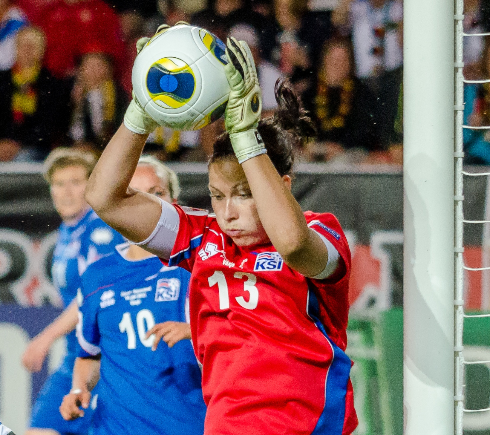 Icelandic football goalkeeper Guðbjörg Gunnarsdóttir playing a Group stage game against Germany in the UEFA Women's Euro 2013 at Myresjöhus Arena in Växjö.